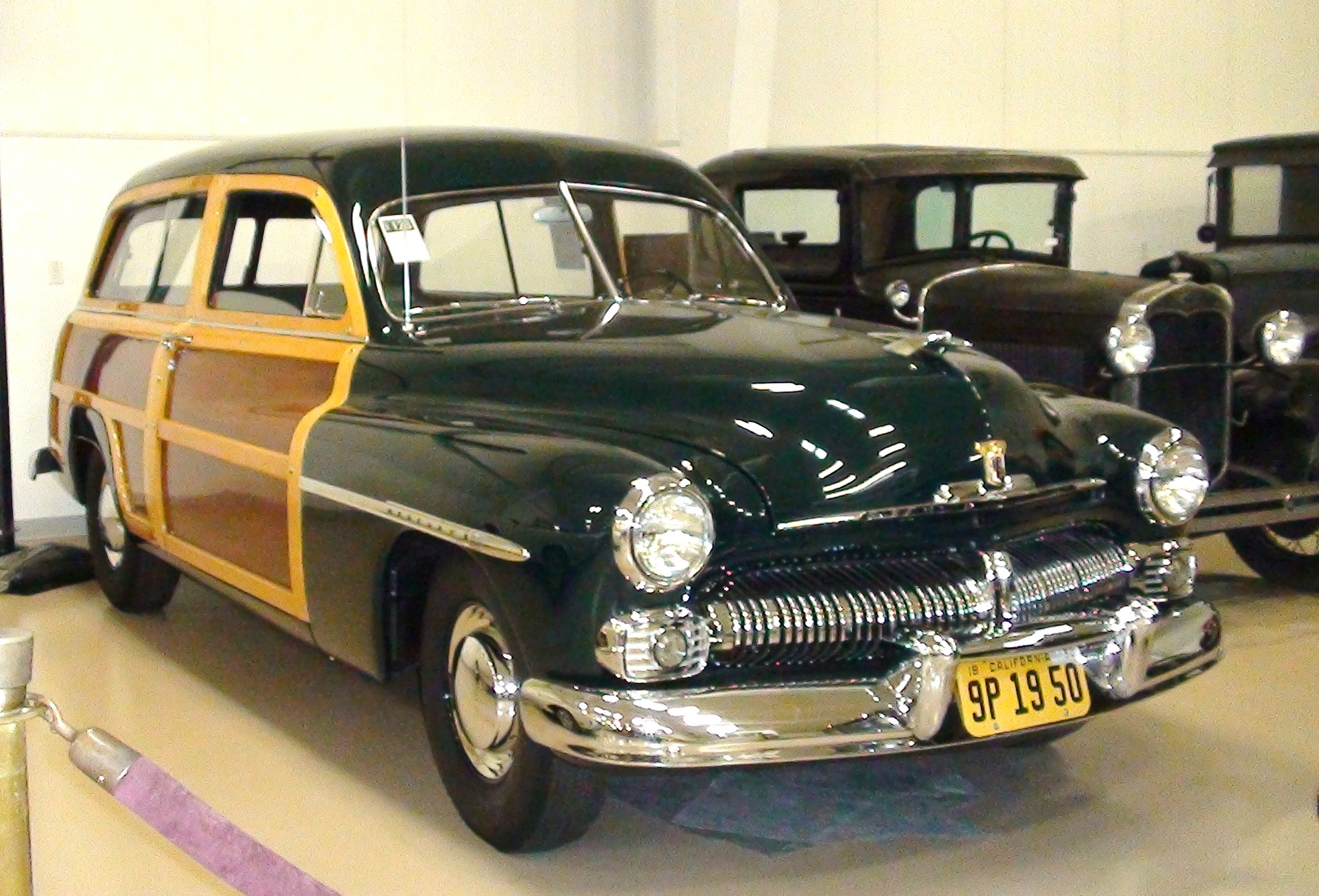 Impeccable woody wagon.